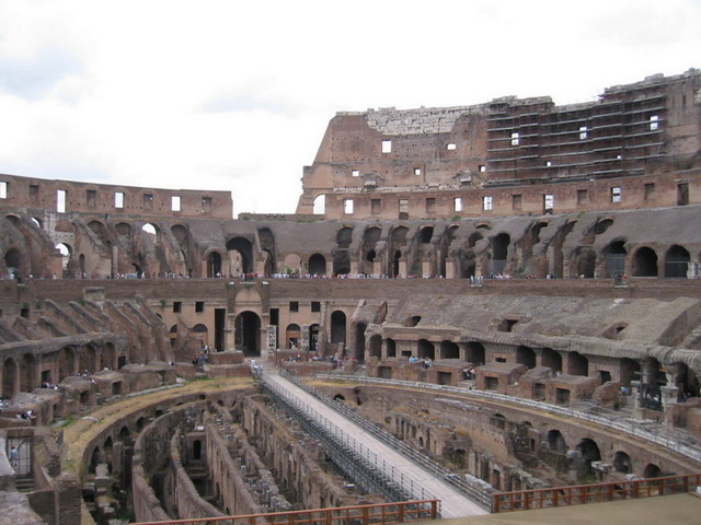 The Colosseum, Rome, Italy